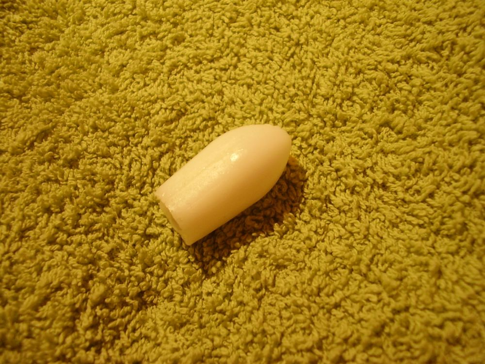 Spermicide (foam)